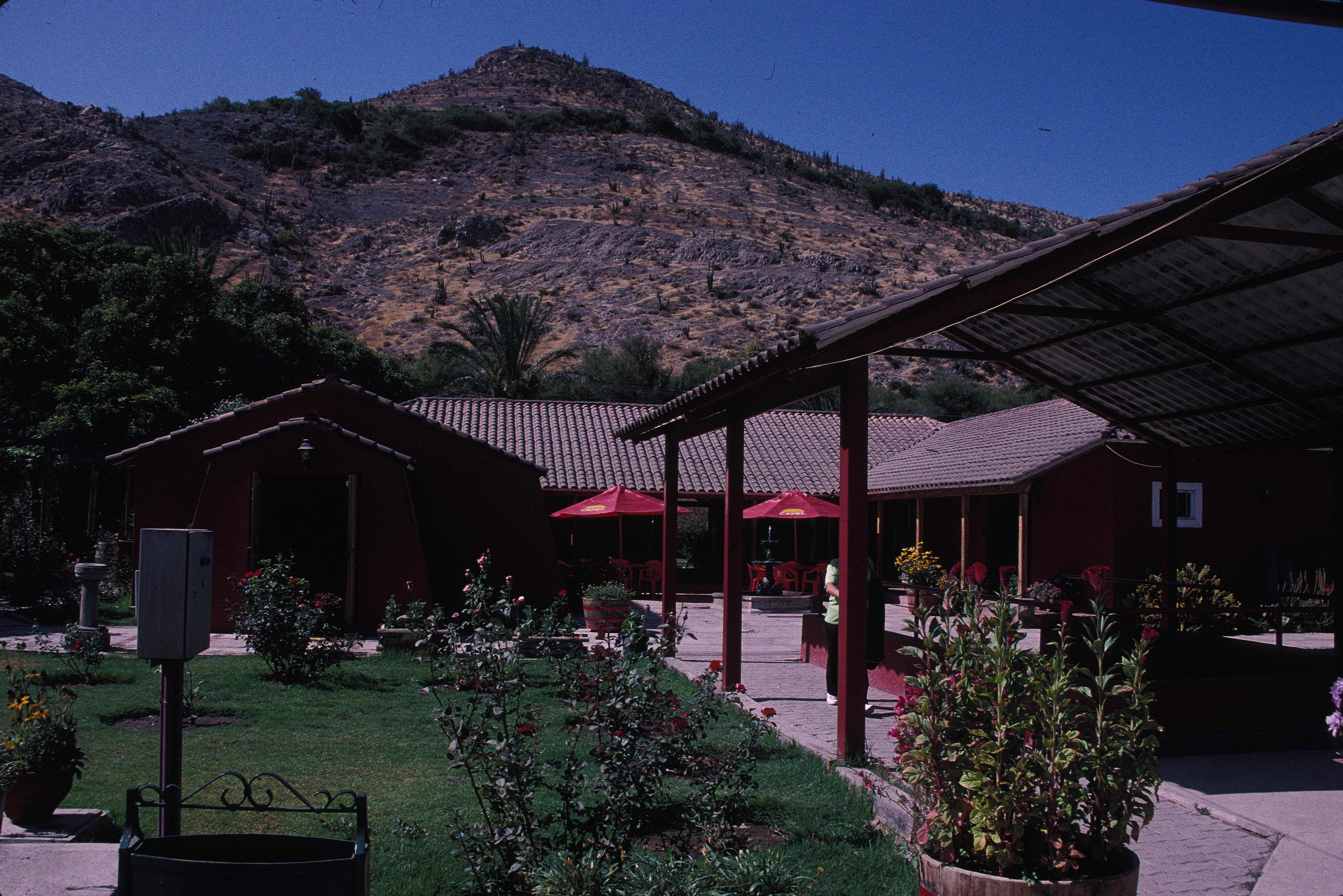 IN THE ELQUI VALLEY AND NEIGHBORING HUASCO VALLEY ARE GROWN THE GRAPES WHICH MAKE A MUSCATEL WINE WHICH IS USED IN THE DRINK KNOWN AS PISCO SOUR. THIS IS THE NATIONAL DRINK . CAPEL IS ONE OF THE CHILE'S LARGEST SPIRITS PROVIDERS. CAPEL IS AN ACHRONYM FOR COOPERATIVA AGRICOLA PISQUERA ELQUI LIMITADA